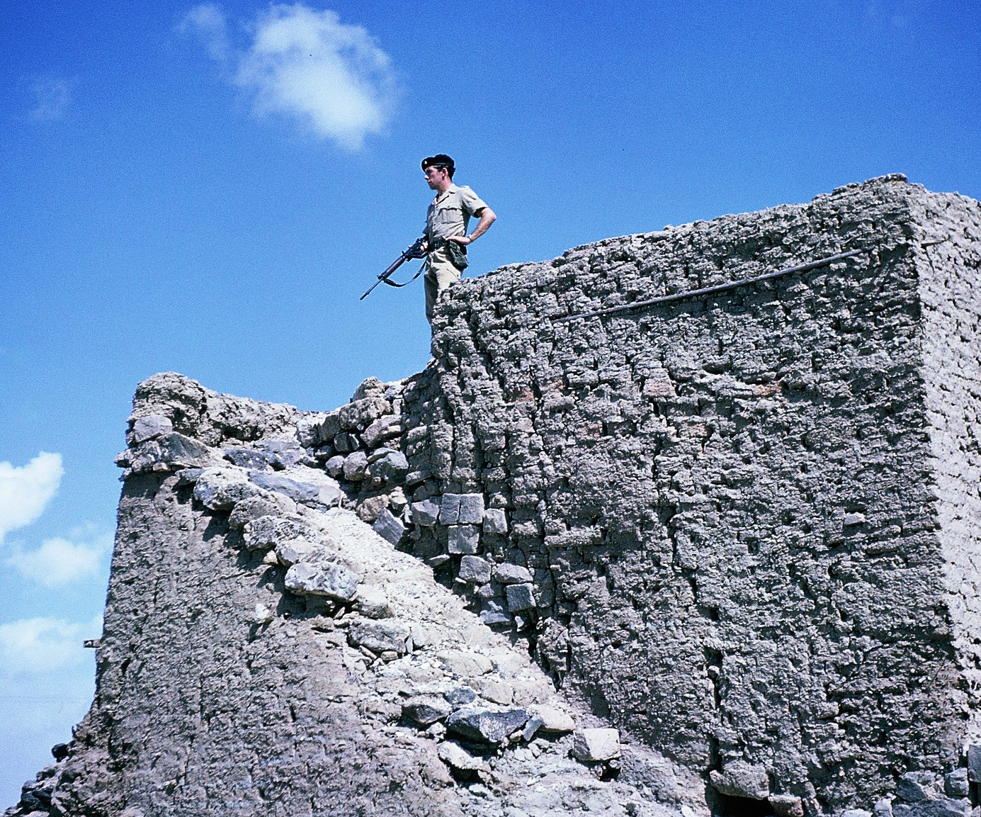 " Dominating the high ground " is Private Lanaghan. Another view of the platoon patrolling and searching the Salt Pans.